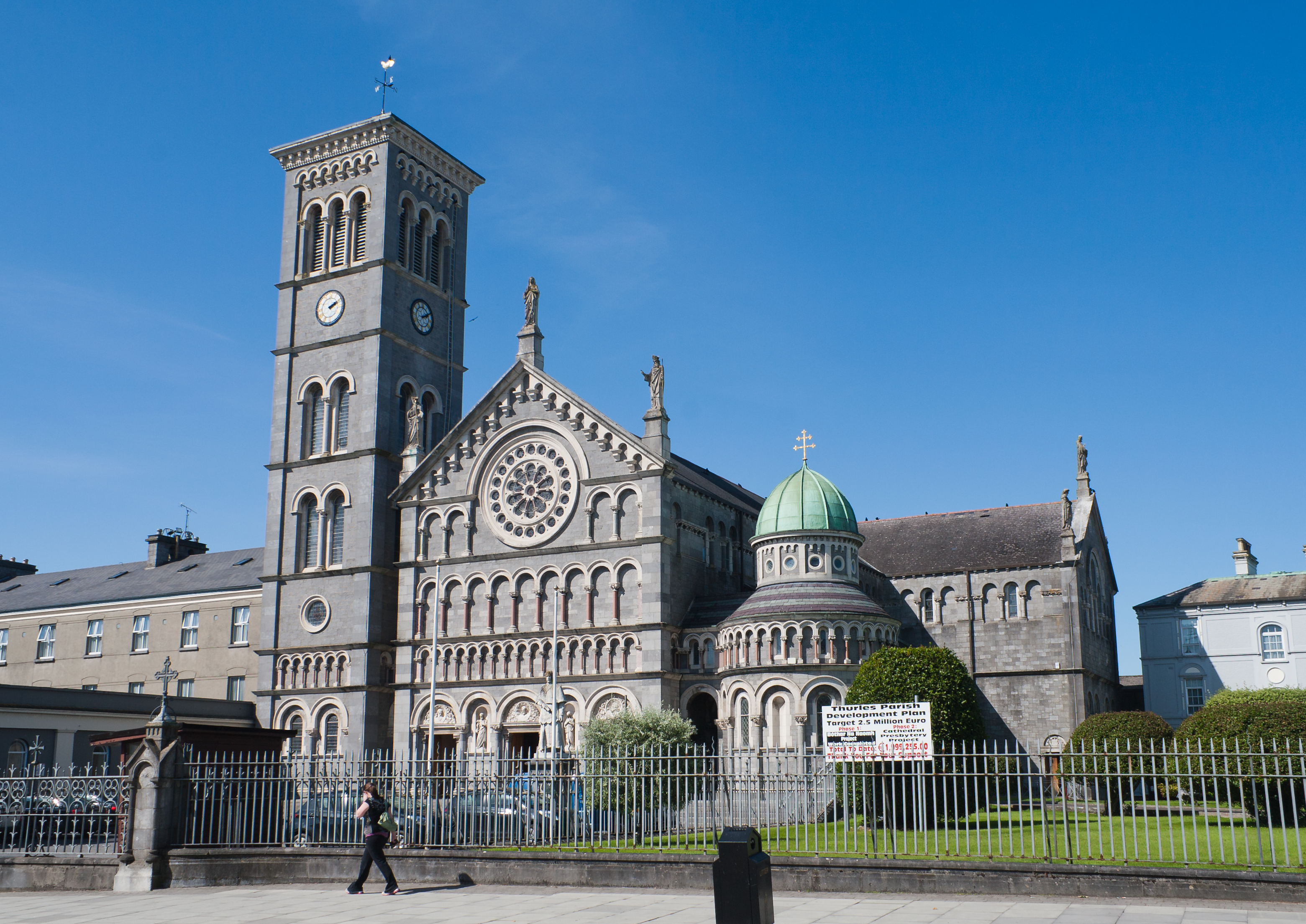 South façade including baptistry, east transept and auxiliary buildings.